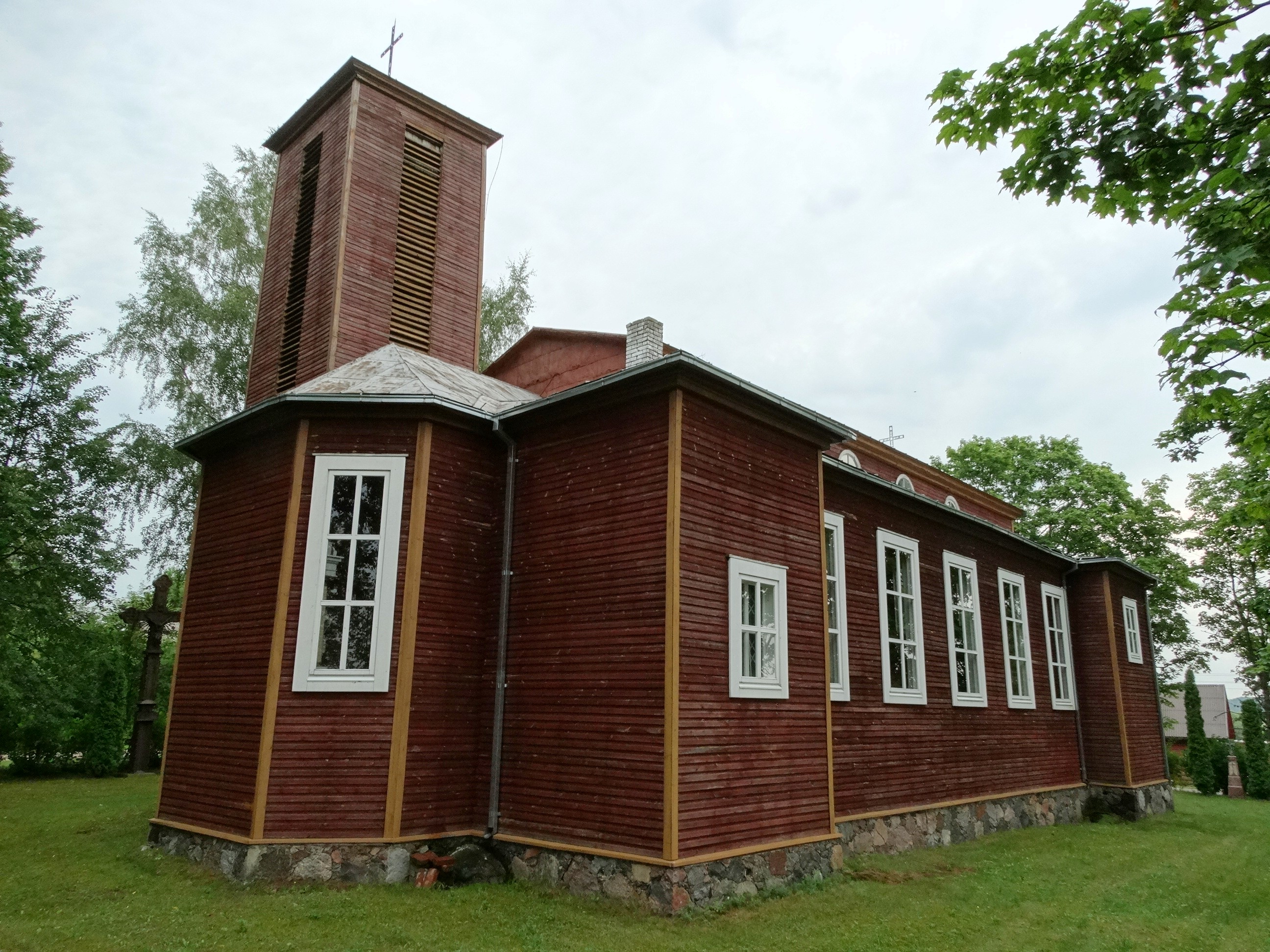 Catholic church in Biliakiemis, rear view, Utena District, Lithuania